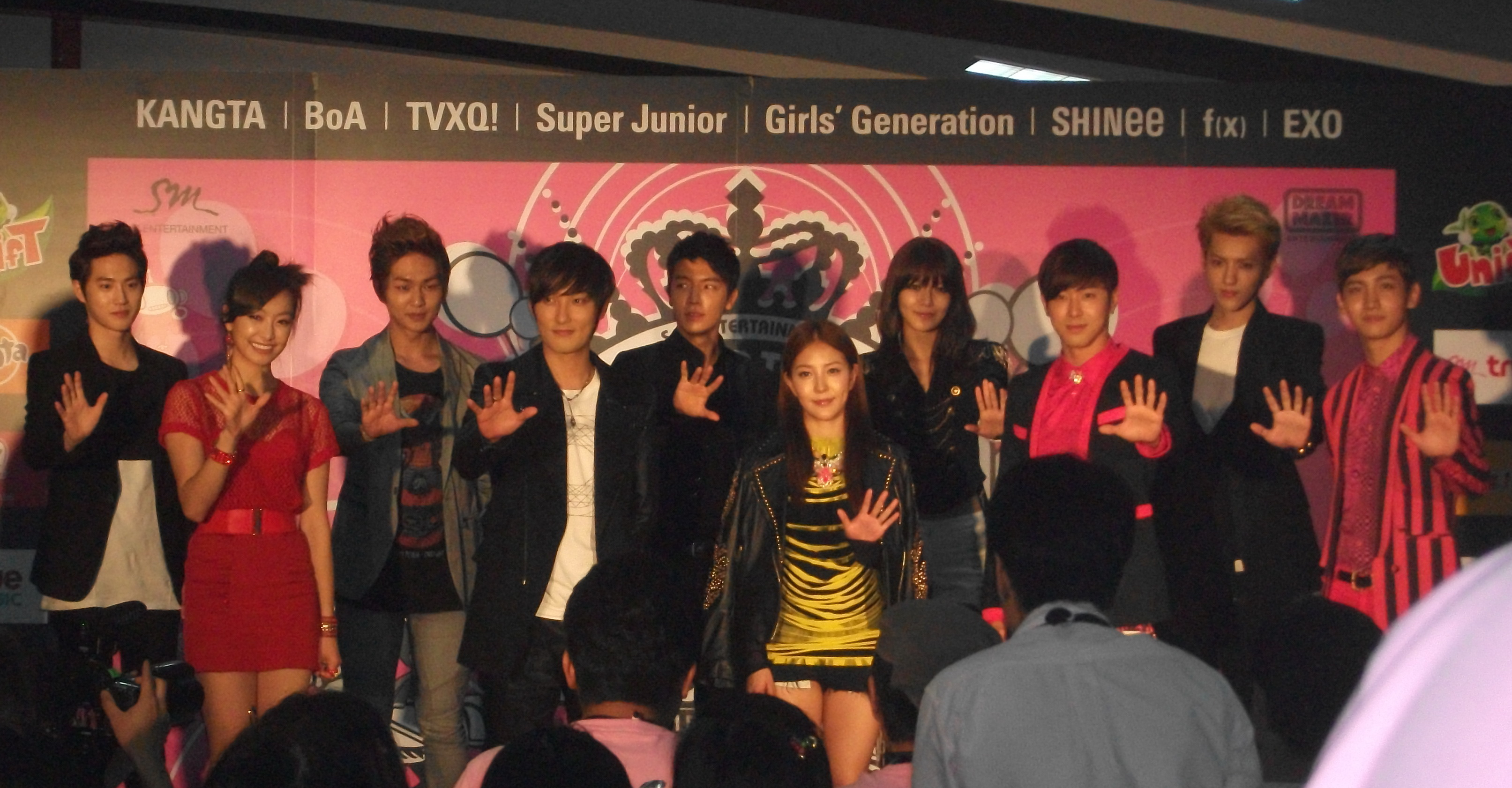 Press conference of SMTown Live World Tour III in Bangkok 2012